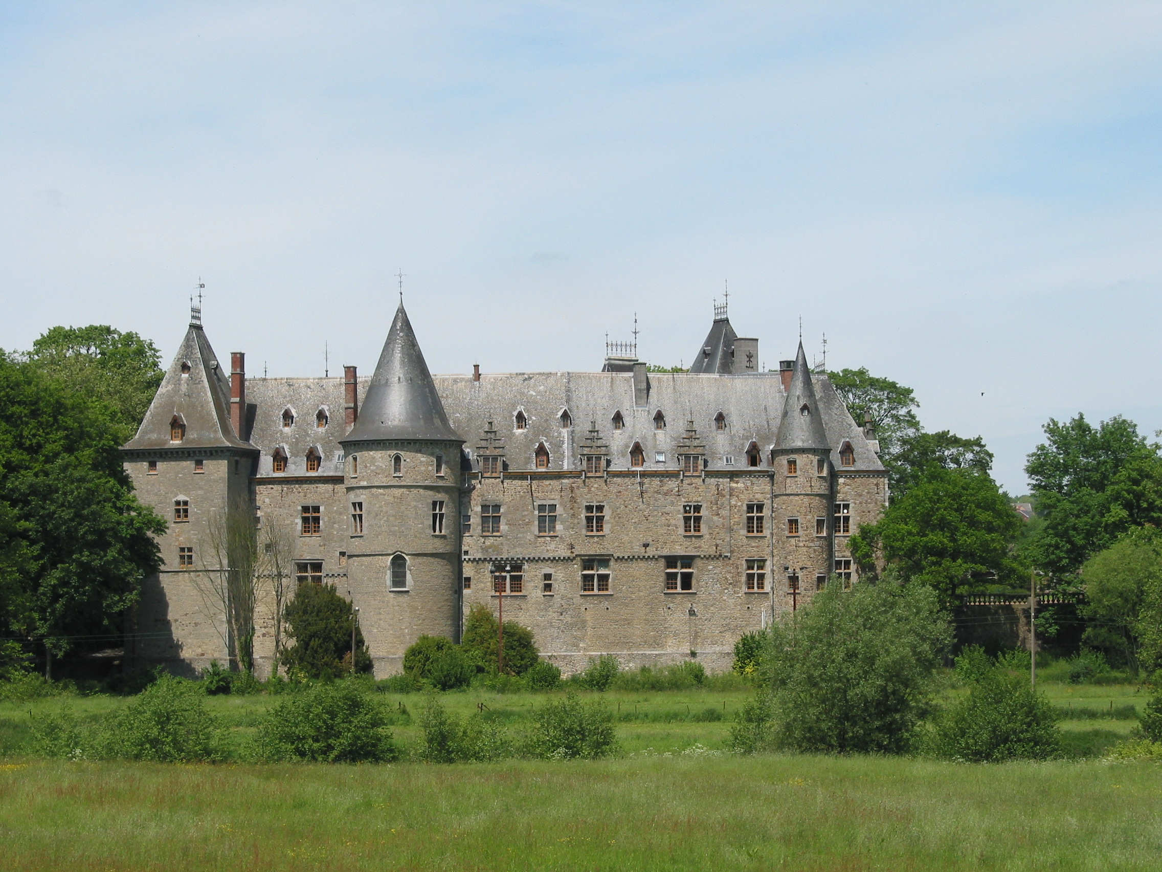 Ham-sur-Heure (Belgium), the previous Princes de Mérode castle (actualy town hall).